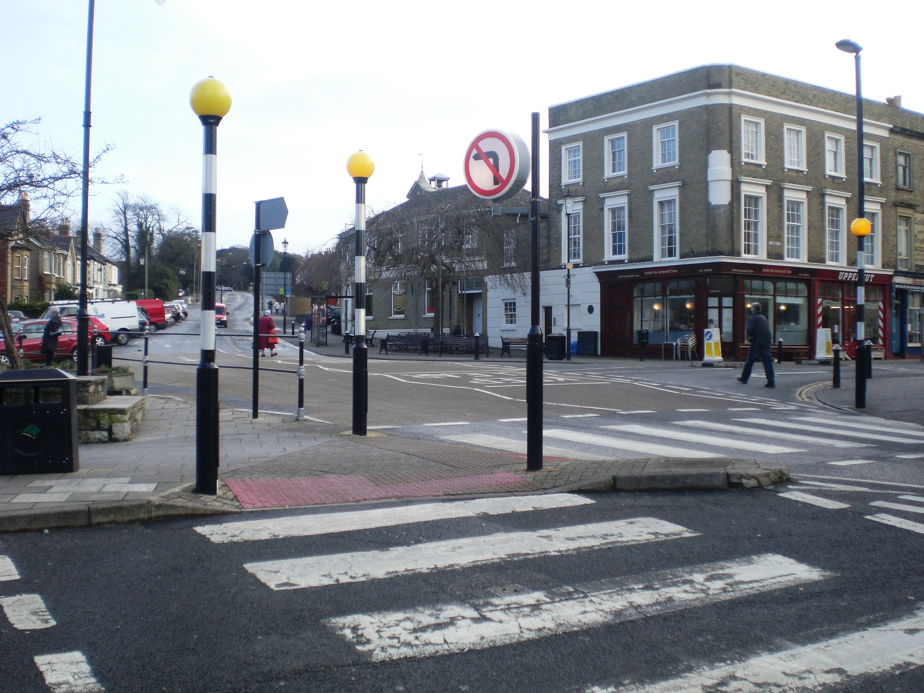 The town centre of East Cowes, UK.